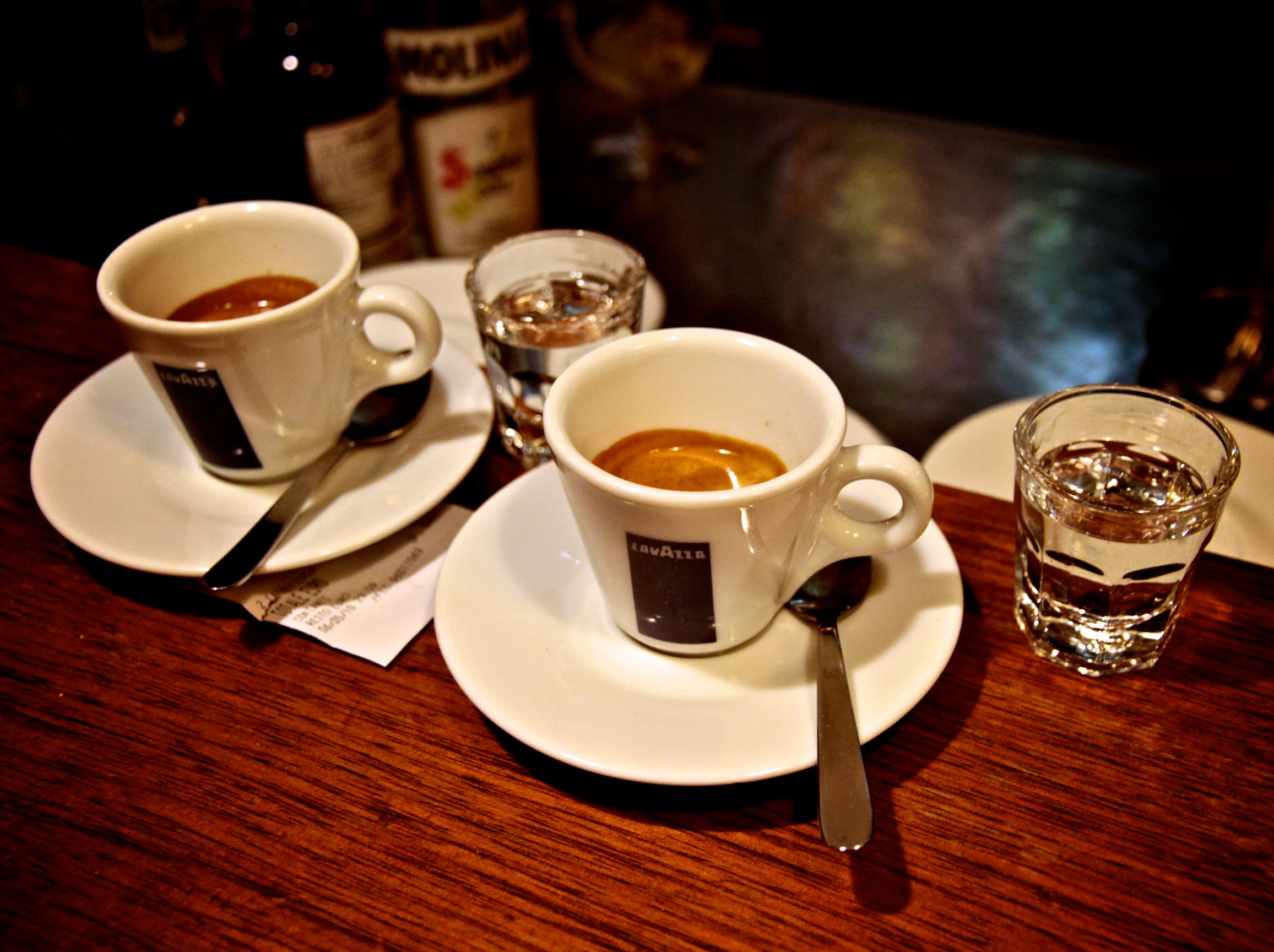 Caffè corretto: espresso and sambuca